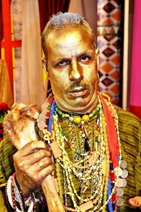 a Photo from Mobile Jin (Kids Drama Serial for PTV) Pakistan's Superhero